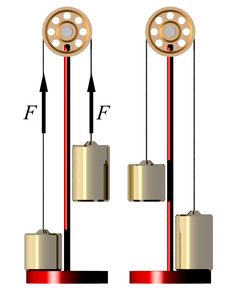 Positive and negative work